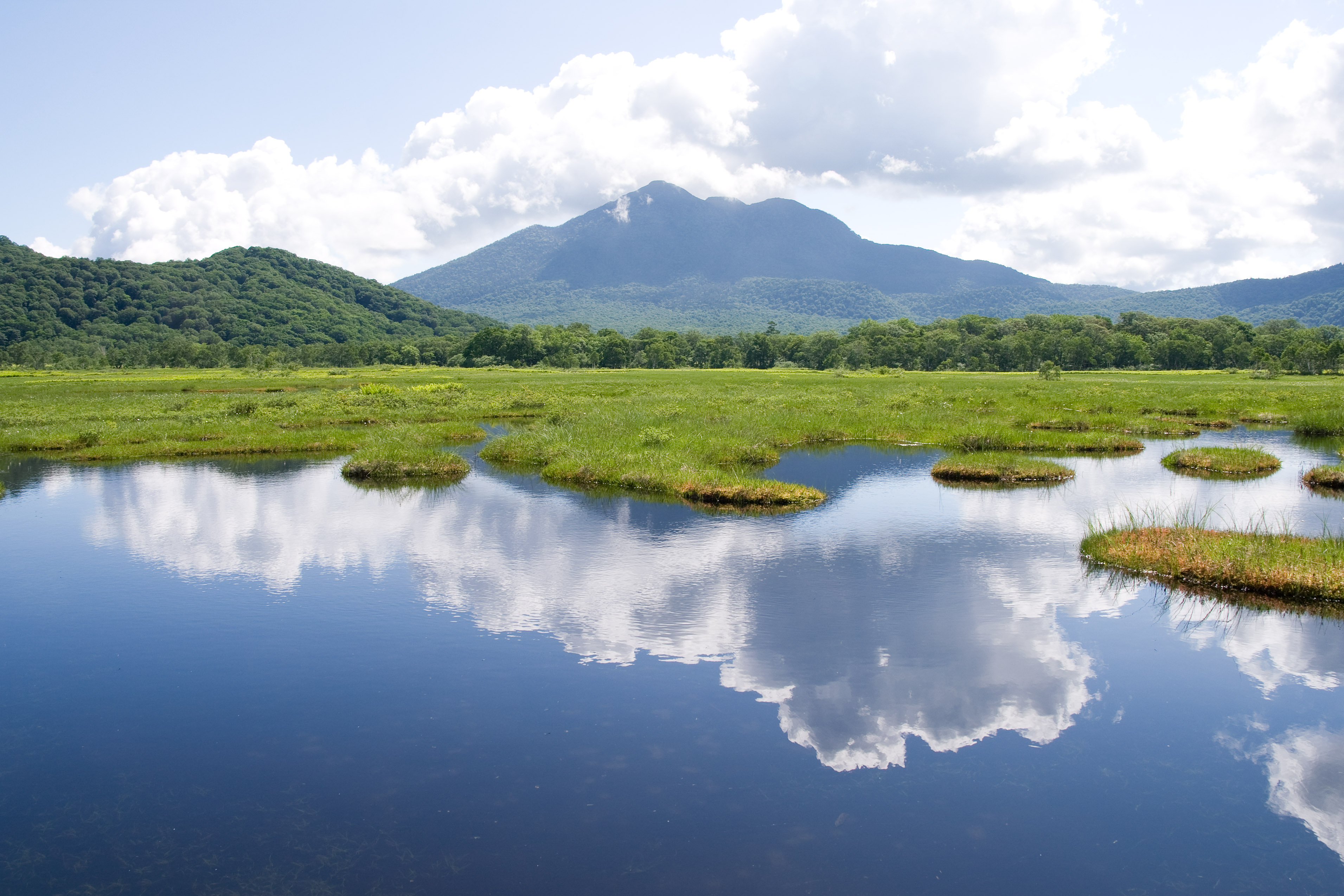 Mount Hiuchi and Ozegahara wetland, in Gunma and Fukushima Prefectures, Japan